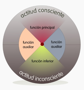 Psychological Types diagram, description of main features feeling / intuition / thinking / feeling and attitudes extroverted / introverted.